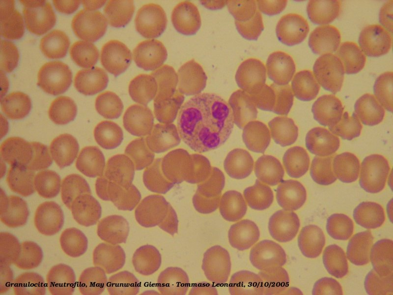 Neutrophil granulocyte smear, MayGrunwal-Giemsa. 100x oil immersion